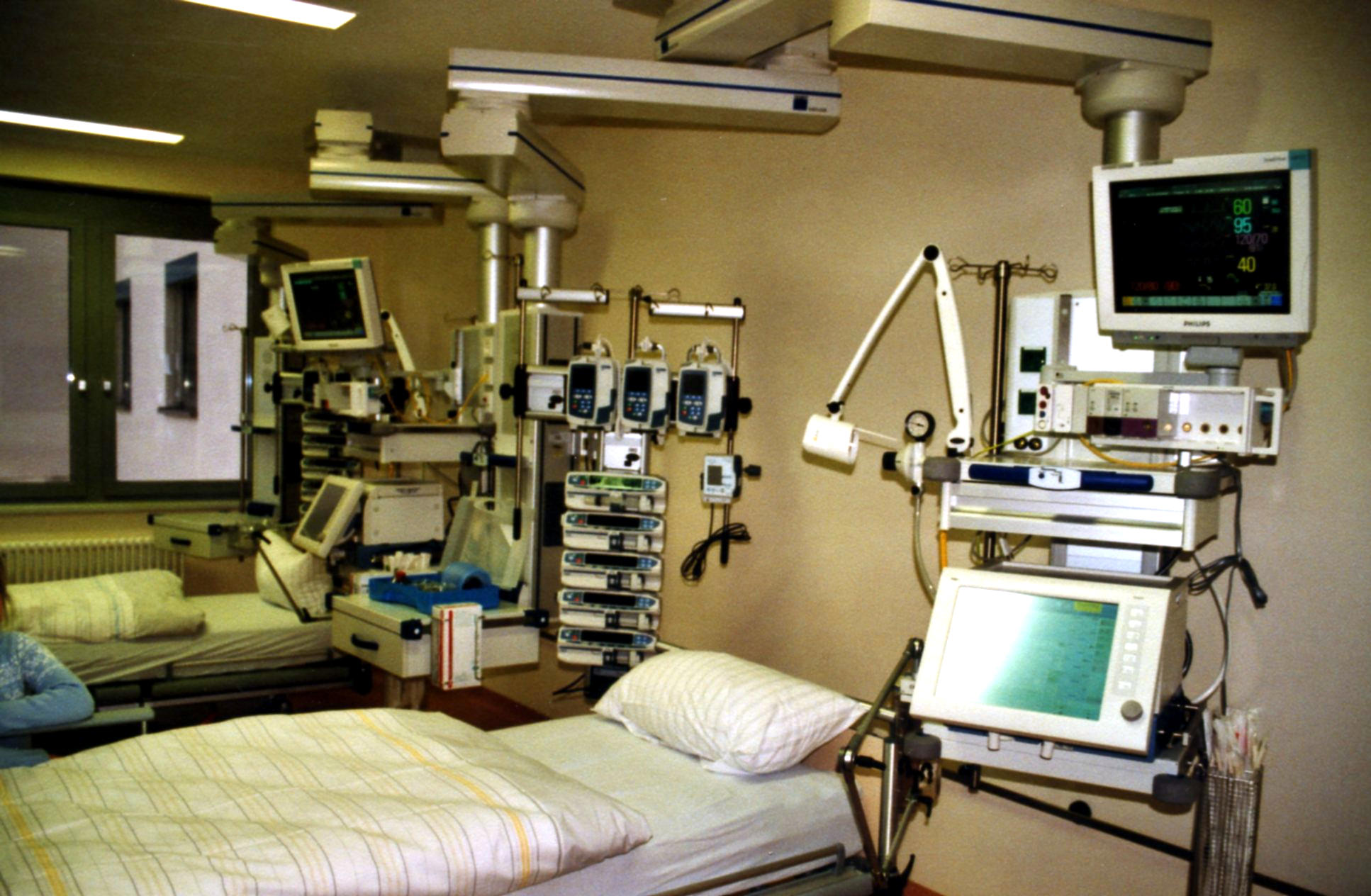 This image shows an Intensive Care Unit.